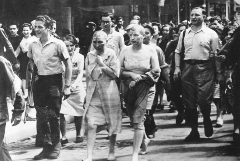 head shaving of women after liberation